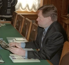 SAINT PETERSBURG. Governor of Saint Petersburg Vladimir Yakovlev.